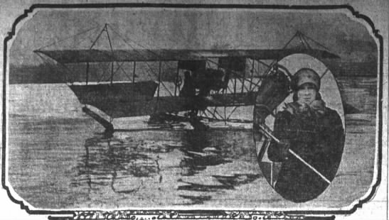 Aviator Edna Christofferson with the hydroplane she took on her honeymoon